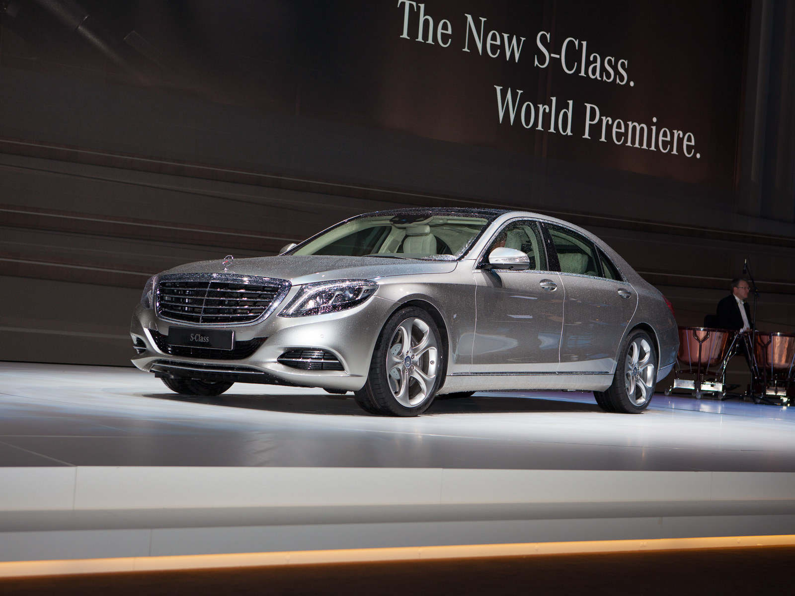 Photo of the portal DRIVE of the new Mercedes-Benz S-Class (W222) from its presentation in Hamburg.